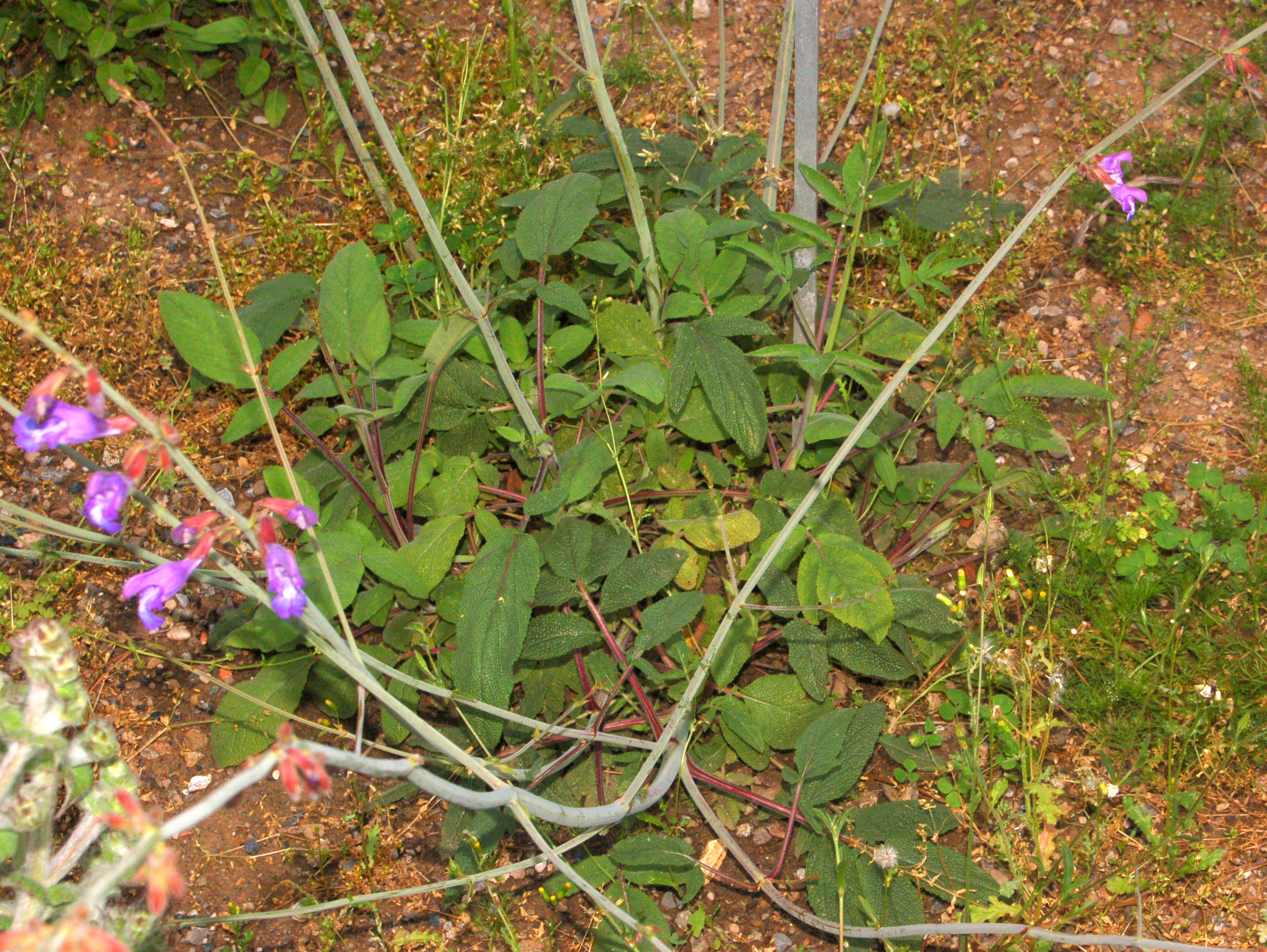 Plant of Salvia ringens at the botanical garden of Villa Durazzo-Pallavicini, Genova Pegli